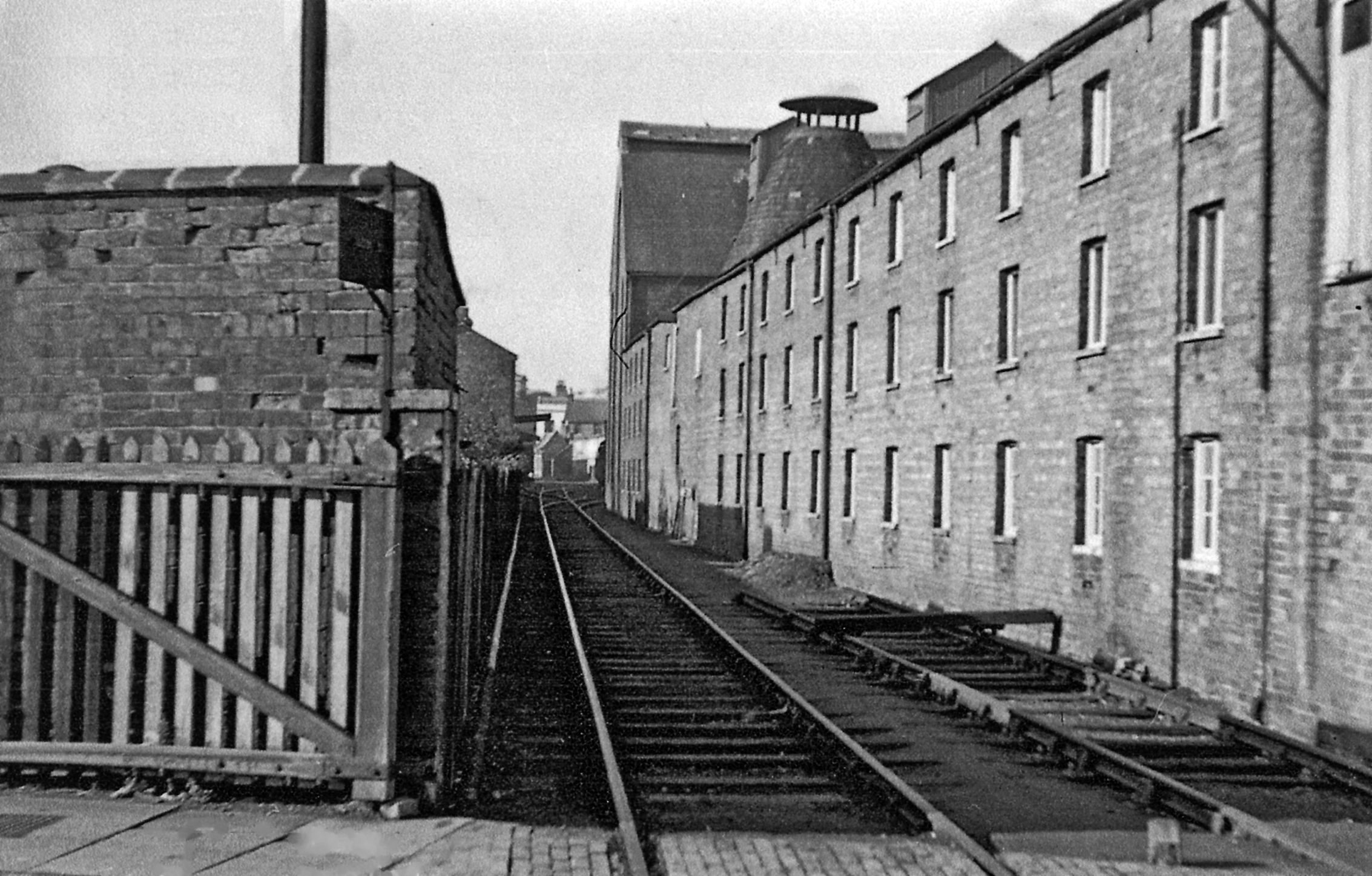 Tewkesbury Quay branch. View westward from near Tewkesbury Junction, towards the Engine Shed, Old Station and across the High Street to the Quay. The branch was closed in 12/57, some years before the line through the 'New' station to Upton-on-Severn closed in 1961.